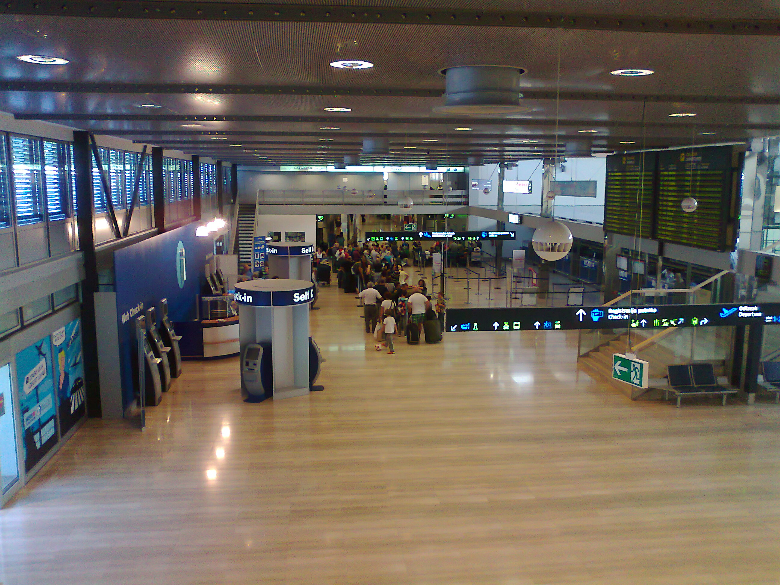 Zagreb airport - departure hall